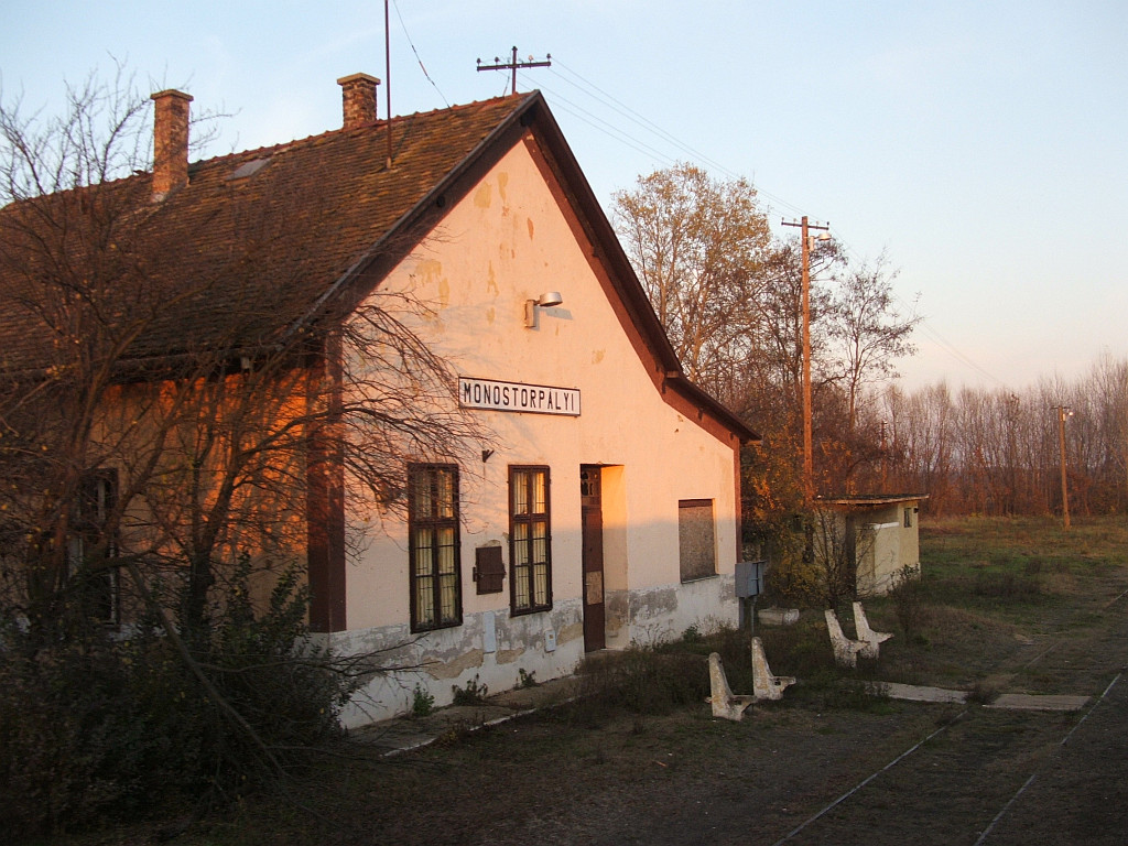 Monostorpályi's train station